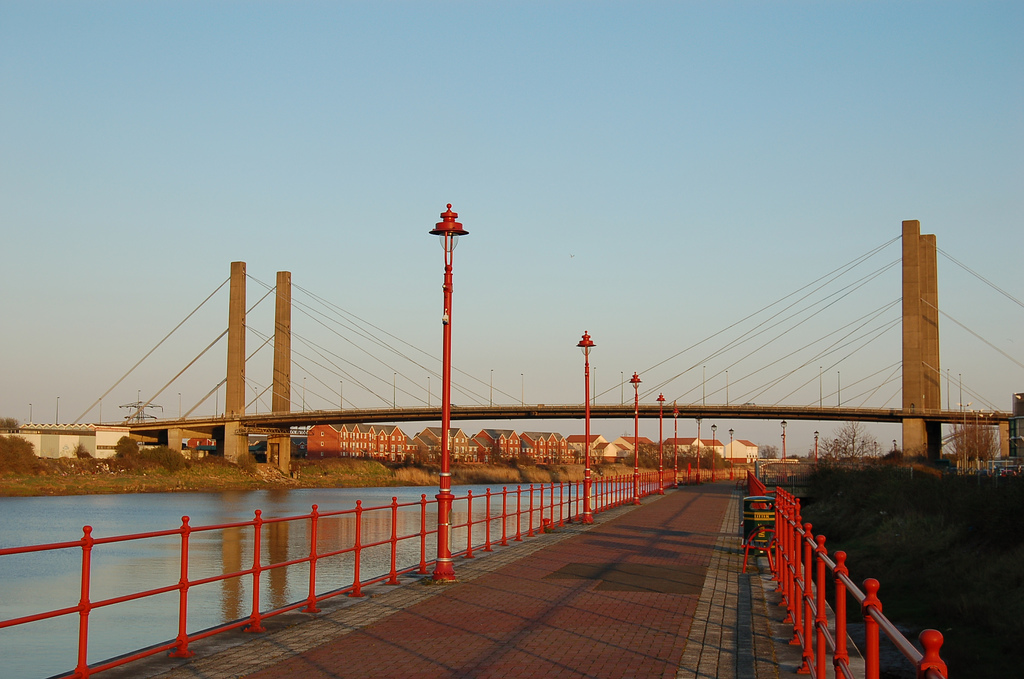 Category:Pictures of Newport The author has agreed to license his Newport pictures under the GFDL. ( mail sent November 10, 2006).